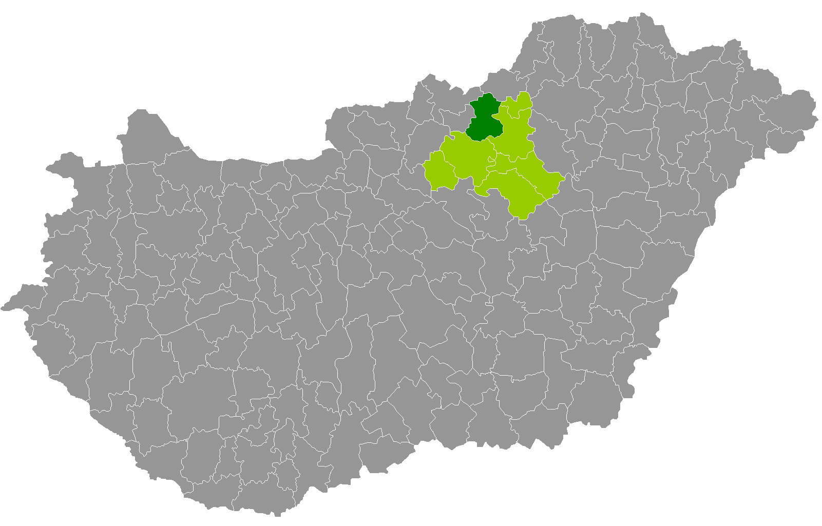 Location of Pétervására District, Heves, Hungary